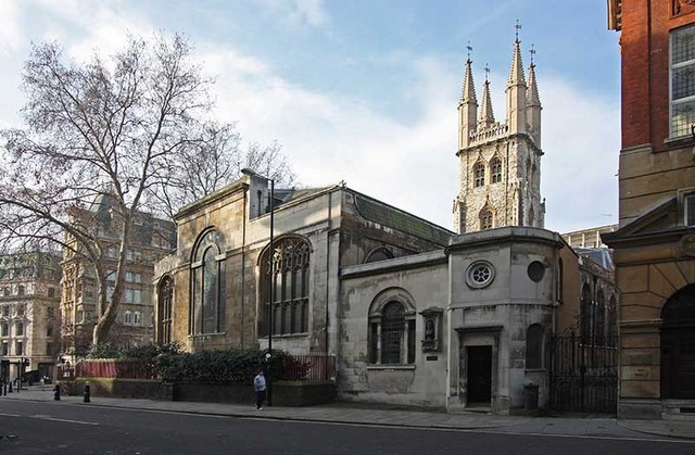 St Sepulchre-without-Newgate, Holborn Viaduct, London EC1, near to London, City of London, Great Britain.